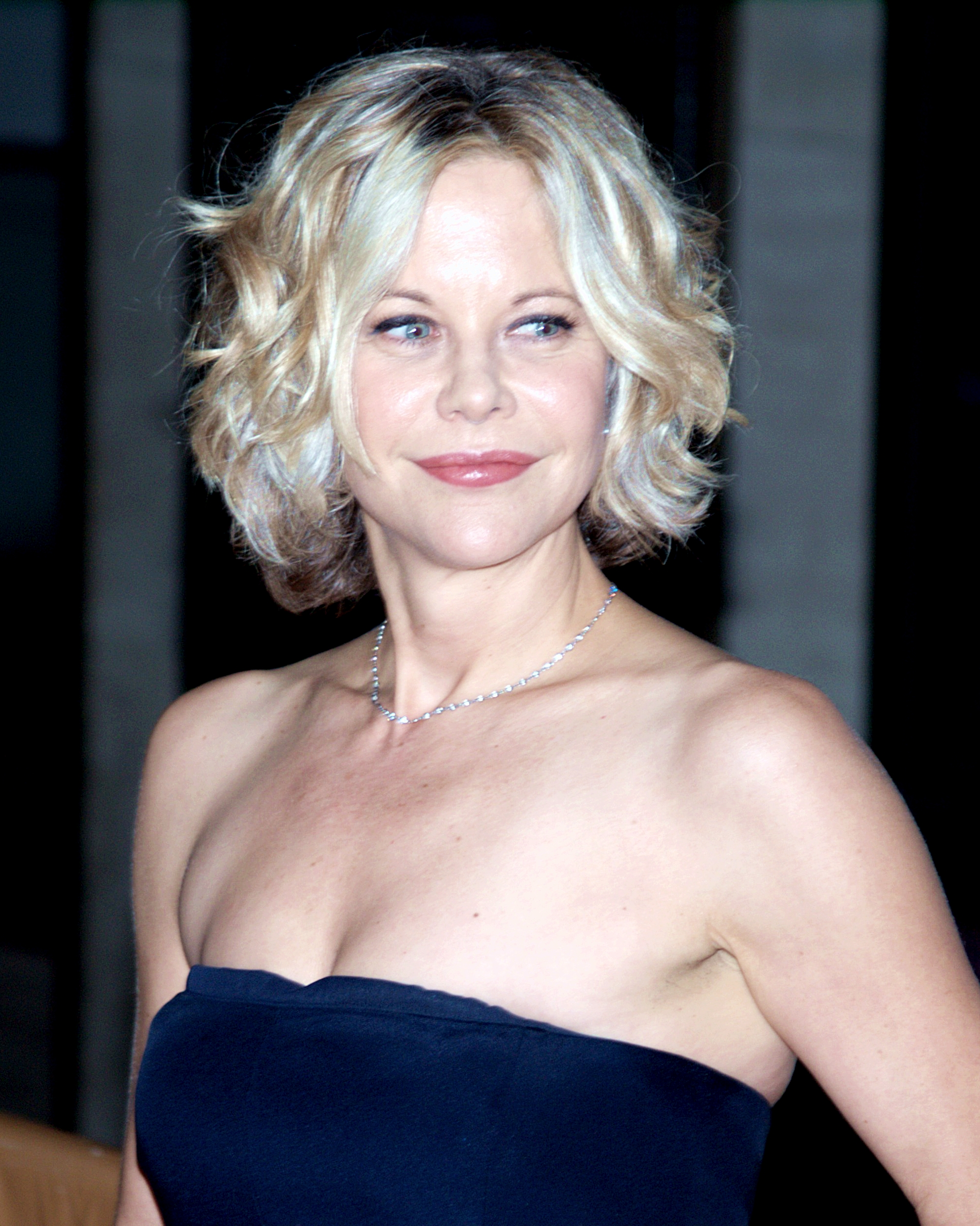 Meg Ryan at Metropolitan Opera's 2010-11 Season Opening Night - "Das Rheingold"